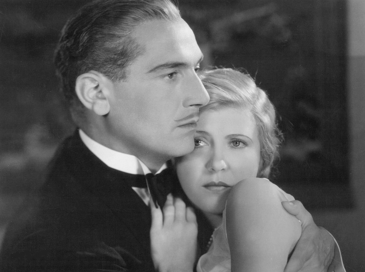 Paul Lukas and Ruth Chatterton in a scene from the 1930 film The Right To Love.